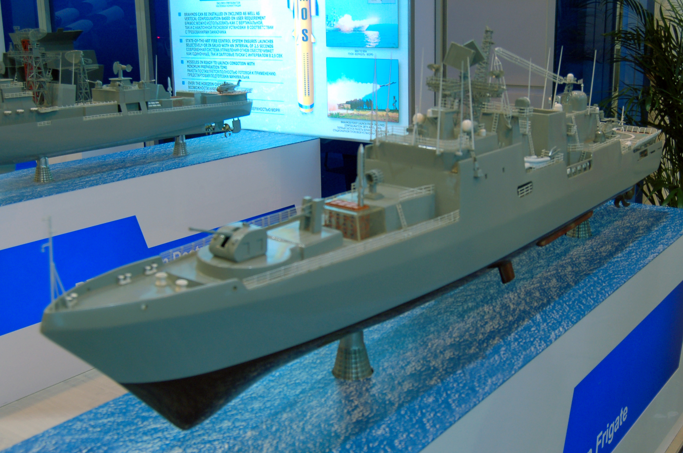 BrahMos missile on frigate maquette. MAKS-2009